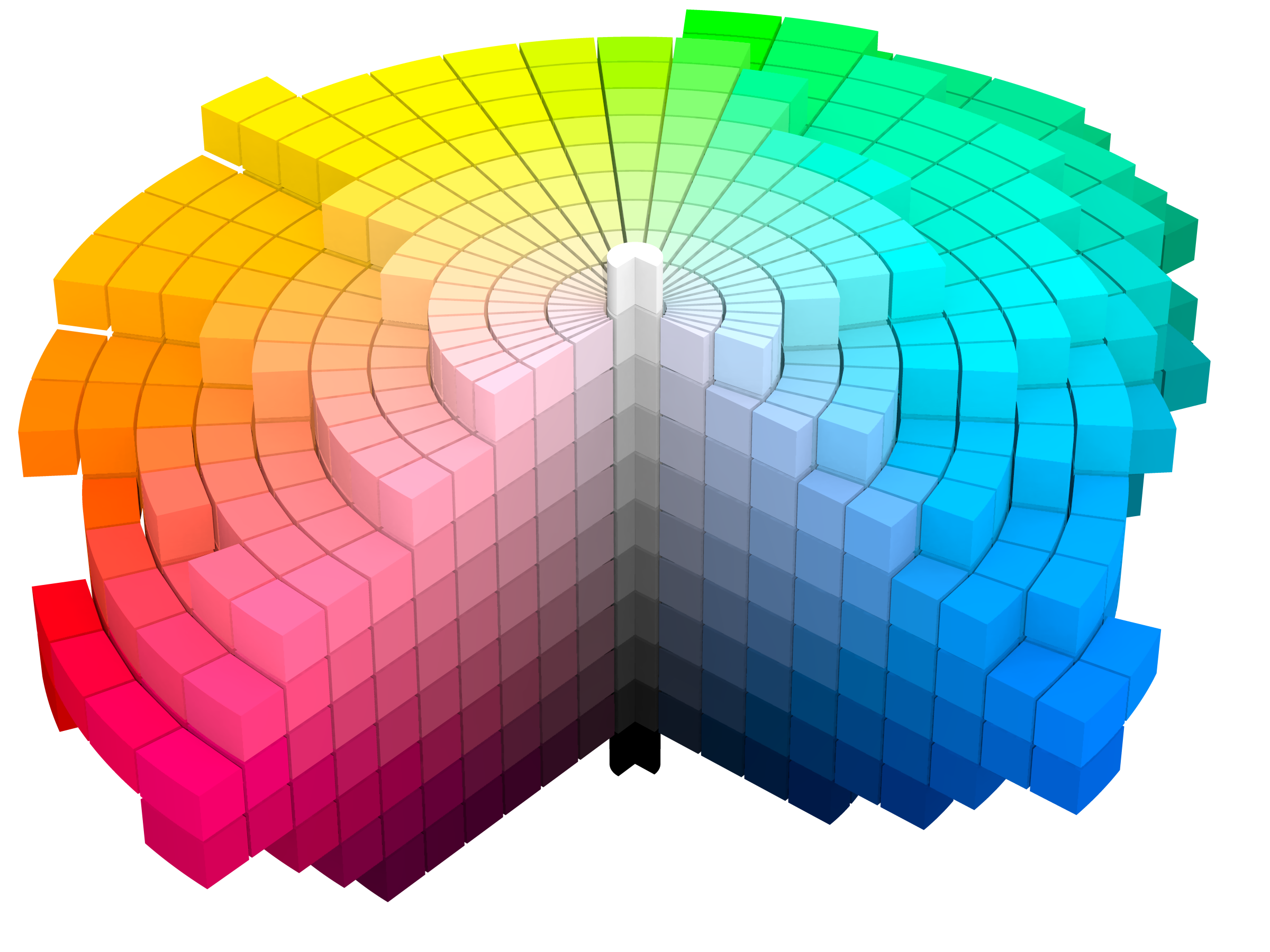 sRGB approximations of the 1943 Munsell renotations. The image includes every real color swatch, but the colors have been normalized so they fit within the sRGB gamut. Also, due to the simulated lighting, the precise color values are affected even further. Source data is "real.dat" from Munsell Renotation Data. Note that the central gray column does not appear in "real.dat" and was added later. A corner has been cut away so you can see inside the shape.